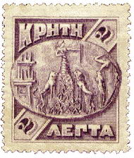 Definitive postage stamp of the Cretan State, second set, 1905. Shows Artemis firing a bow, from a relief in Knossos.